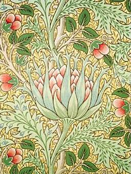 "Artichoke" wallpaper,designed by John Henry Dearle for Morris & Co. Printed design pre-1900